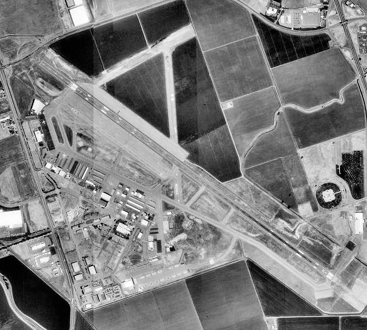 USGS digital orthophoto of Stockton Metropolitan Airport in California